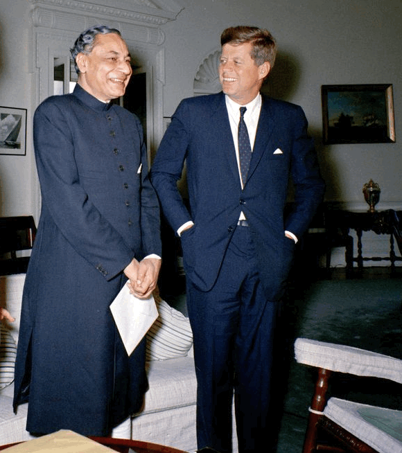 President John F. Kennedy meets with Ambassador to the United States from India, Braj Kumar Nehru, in the Oval Office